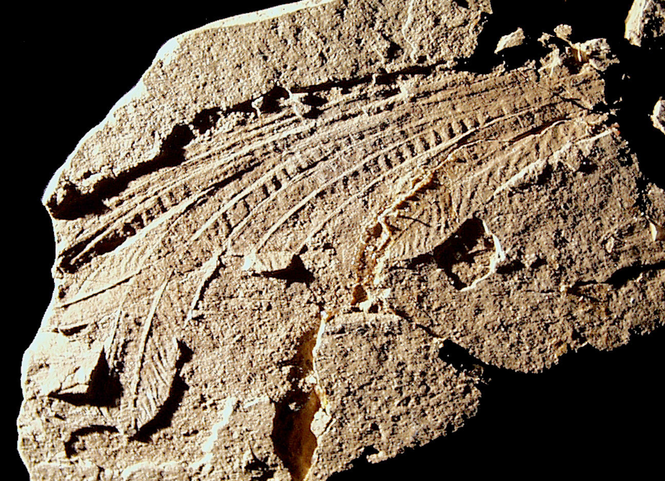 Researchers at Oregon State University say this 220-million-year-old fossil shows the oldest animal with feathers that has ever been discovered. It and other evidence calls into serious question the presumed evolutionary link between dinosaurs and birds. Findings on this study by OSU paleontologists John Ruben and Terry Jones were published in the journal Science. Full story at